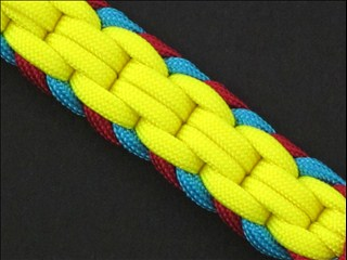 The Mystical Chained Endless Falls - a version of the "endless falls" paracord fusion ties set by JD Lenzen of